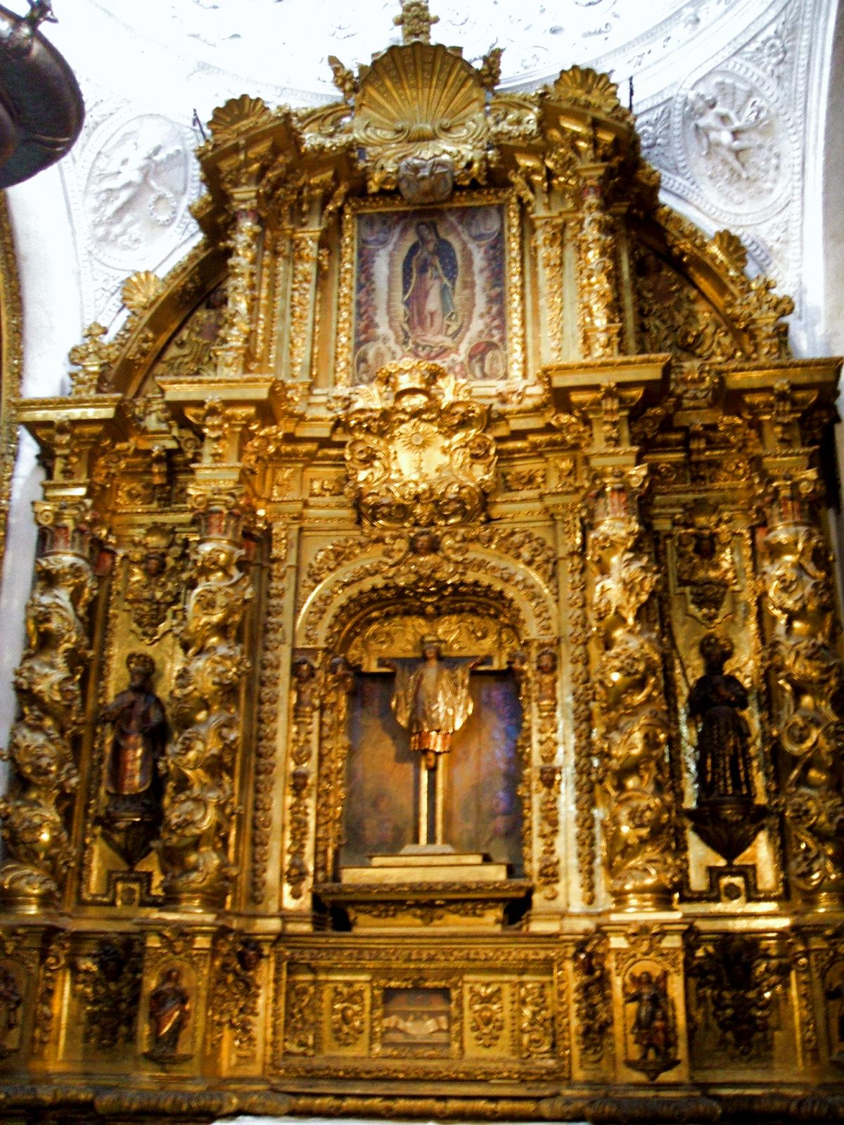 Altar barroco churrigueresco en la Capilla de Santo Dominguito del Val, en la Seo de Zaragoza (España)